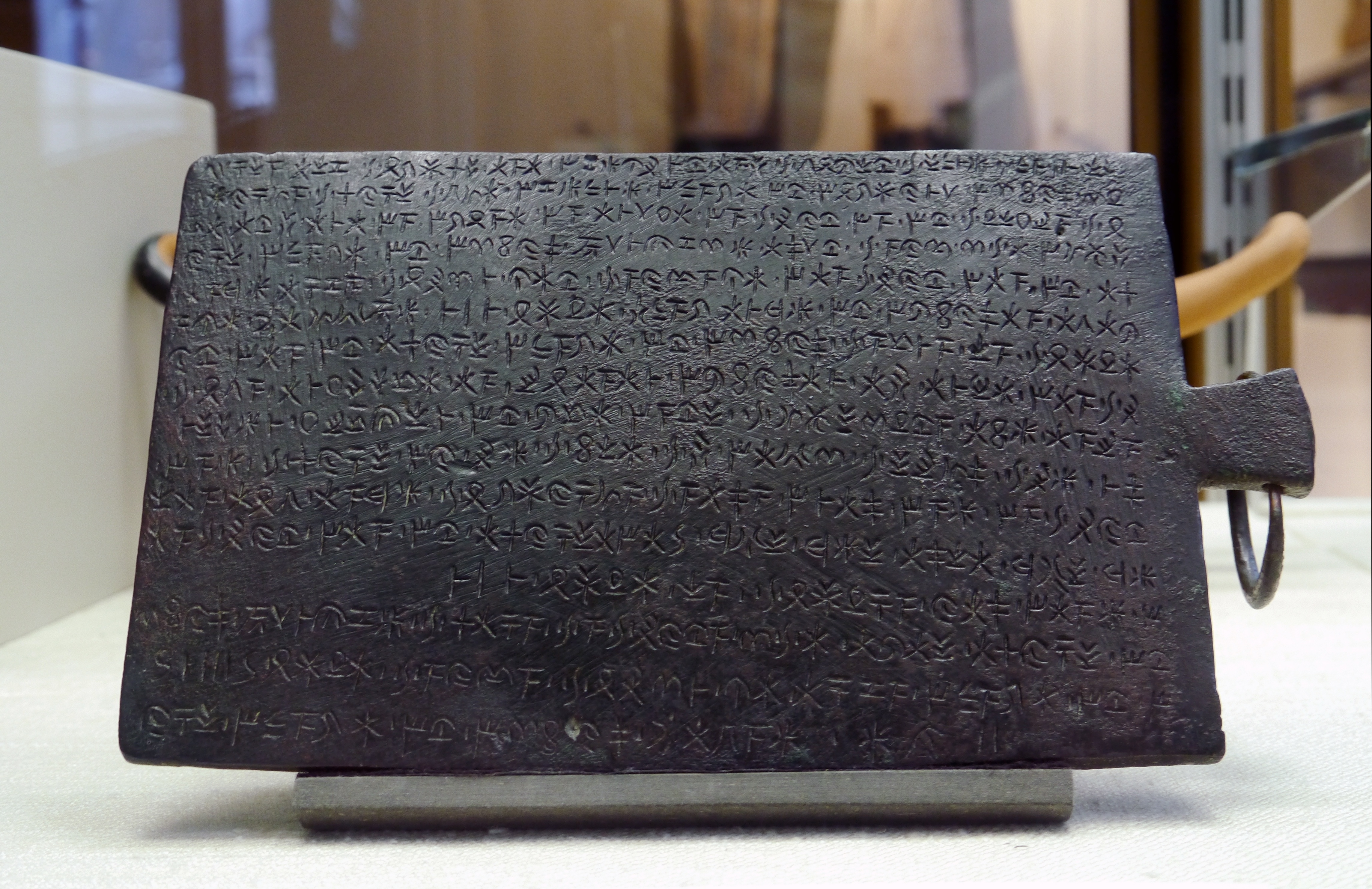 Cabinet des médailles, Paris, France. Decree from Stasicypros, king of Idalion in Cyprus, in favour of a public physician, Onesilos, and his brothers: the king and the city will pay them medical fees for the treatment of the wounded after the siege of Idalion by the Medes (478 and 470 BC). Bronze plaque engraved on both faces with a Cyprian inscription.